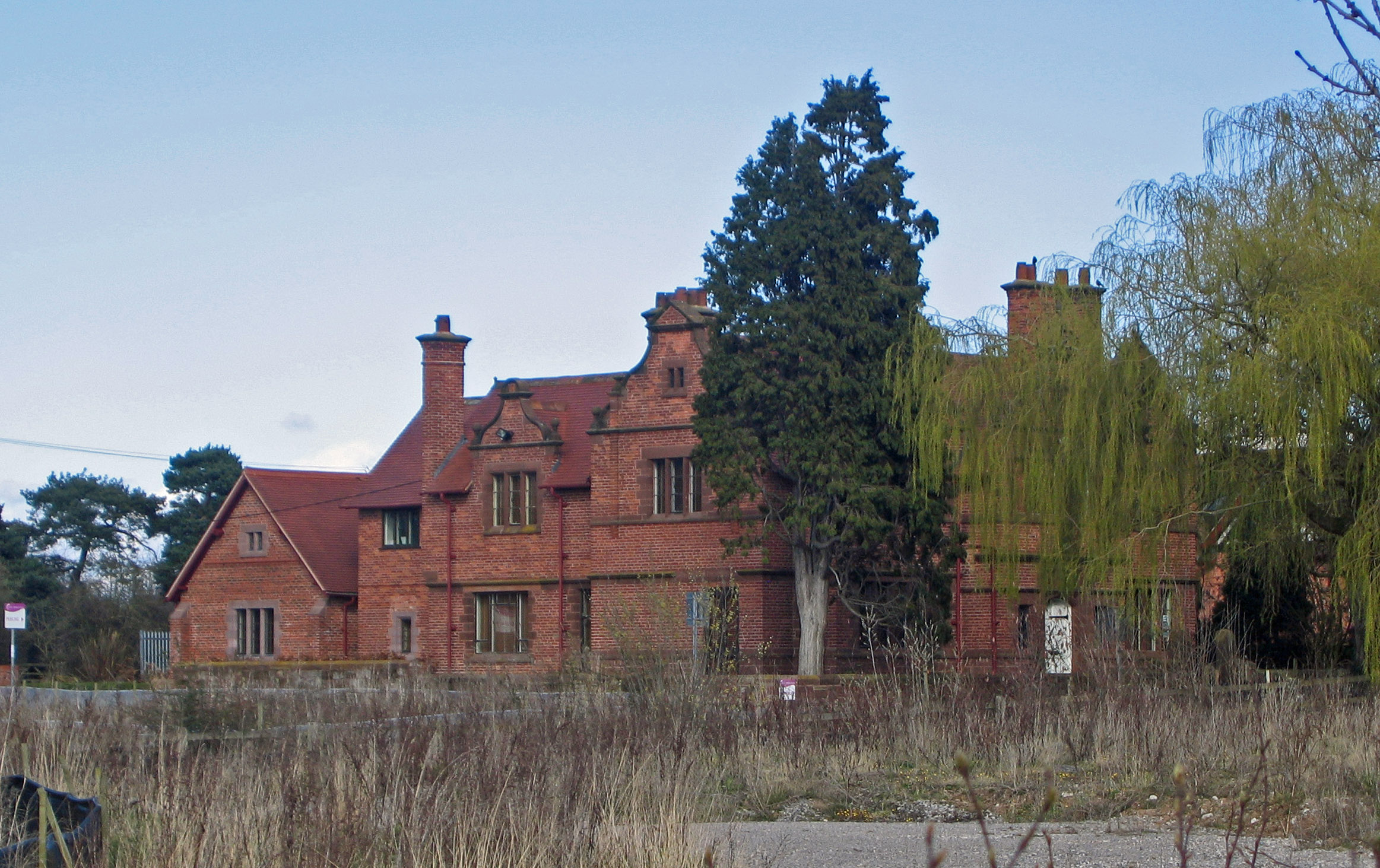 Photograph of the former Wrexham Road Farmhouse, Cheshire, England, now part of Chester Business Park